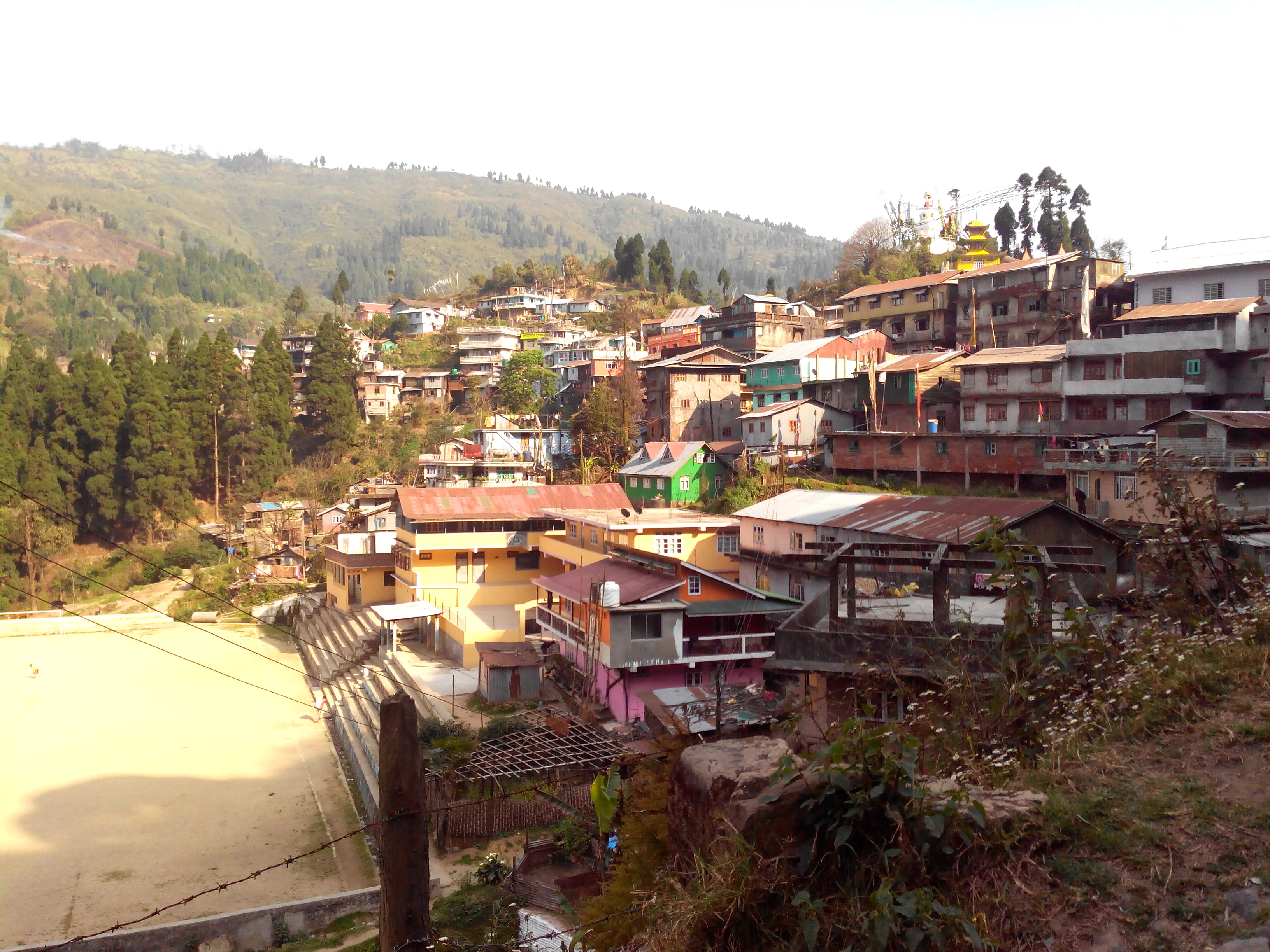 Maney Bhanjyang